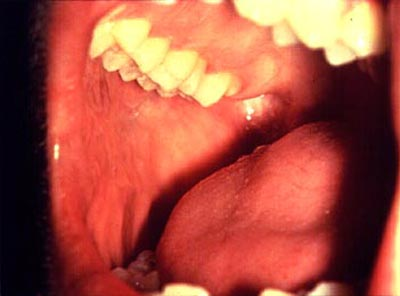 These images are part of the 2013 publication from the NIH "Detecting Oral Cancer: A Guide for Health Care Professionals". Available on the 15/7/14 at BUCCAL MUCOSA: (Figures 5 and 6) Retract the buccal mucosa. Examine first the right then the left buccal mucosa extending from the labial commissure and back to the anterior tonsillar pillar. Note any change in pigmentation, color, texture, mobility, and other abnormalities of the mucosa, making sure that the commissures are examined carefully and are not covered by the retractors during the retraction of the cheek.